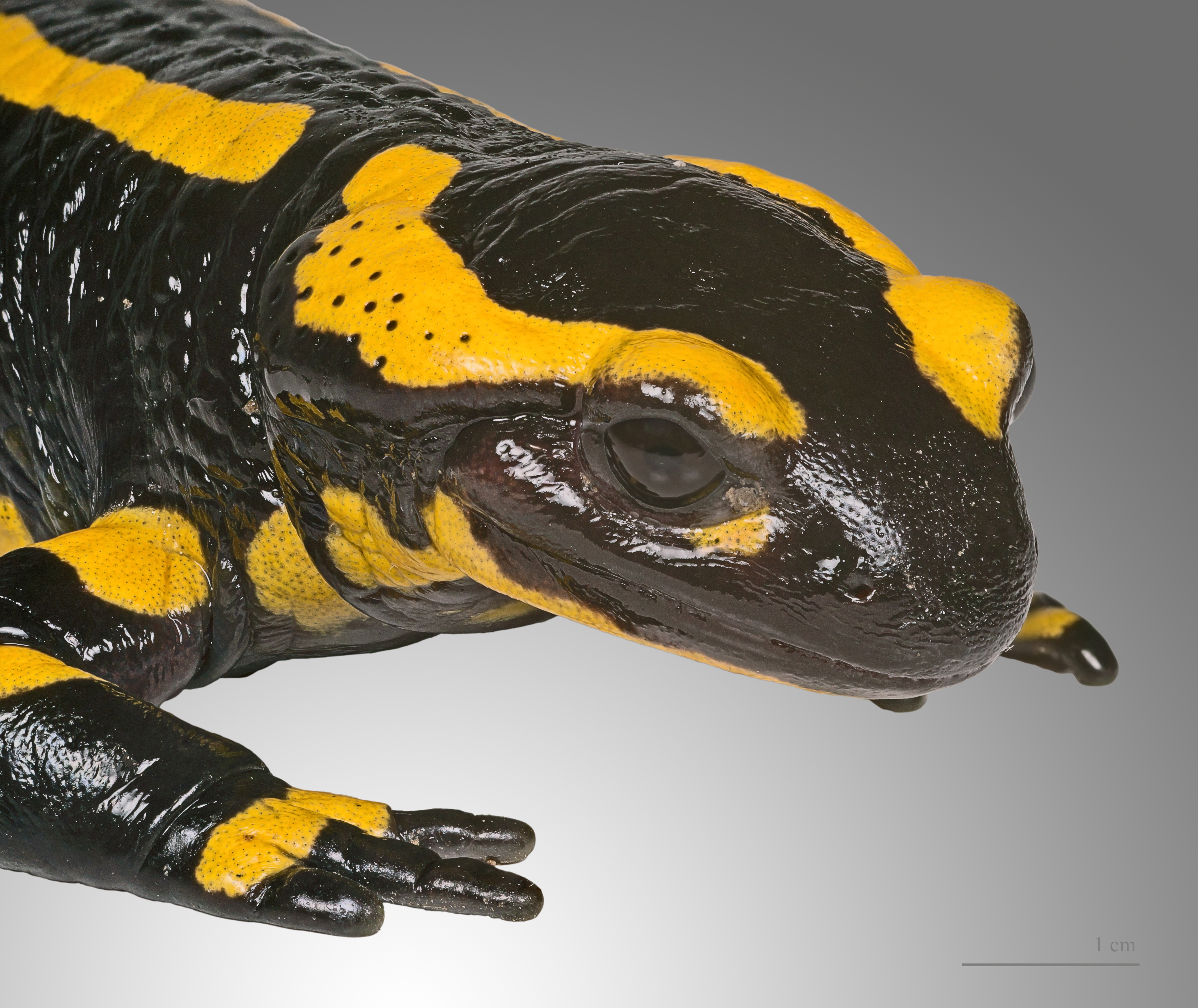 ♂ - Fire Salamander No. 1 Parotide gland, neurotoxin. No. 2 Vomeronasal organ. Locality: Maourine pond, Toulouse, France.